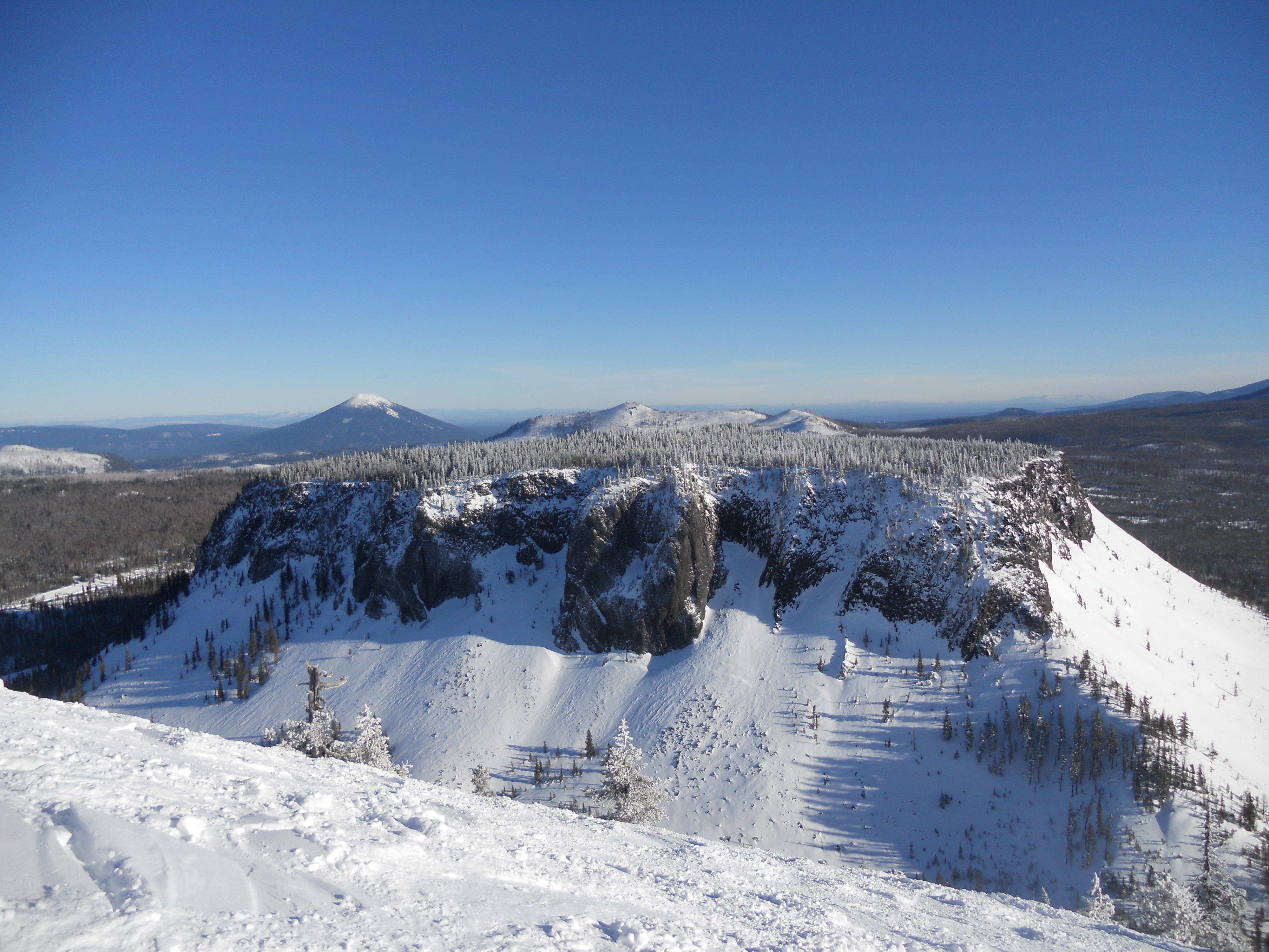 Hayrick Butte, a tuya volcano next to Hoodoo ski area in Linn County, Oregon, United States